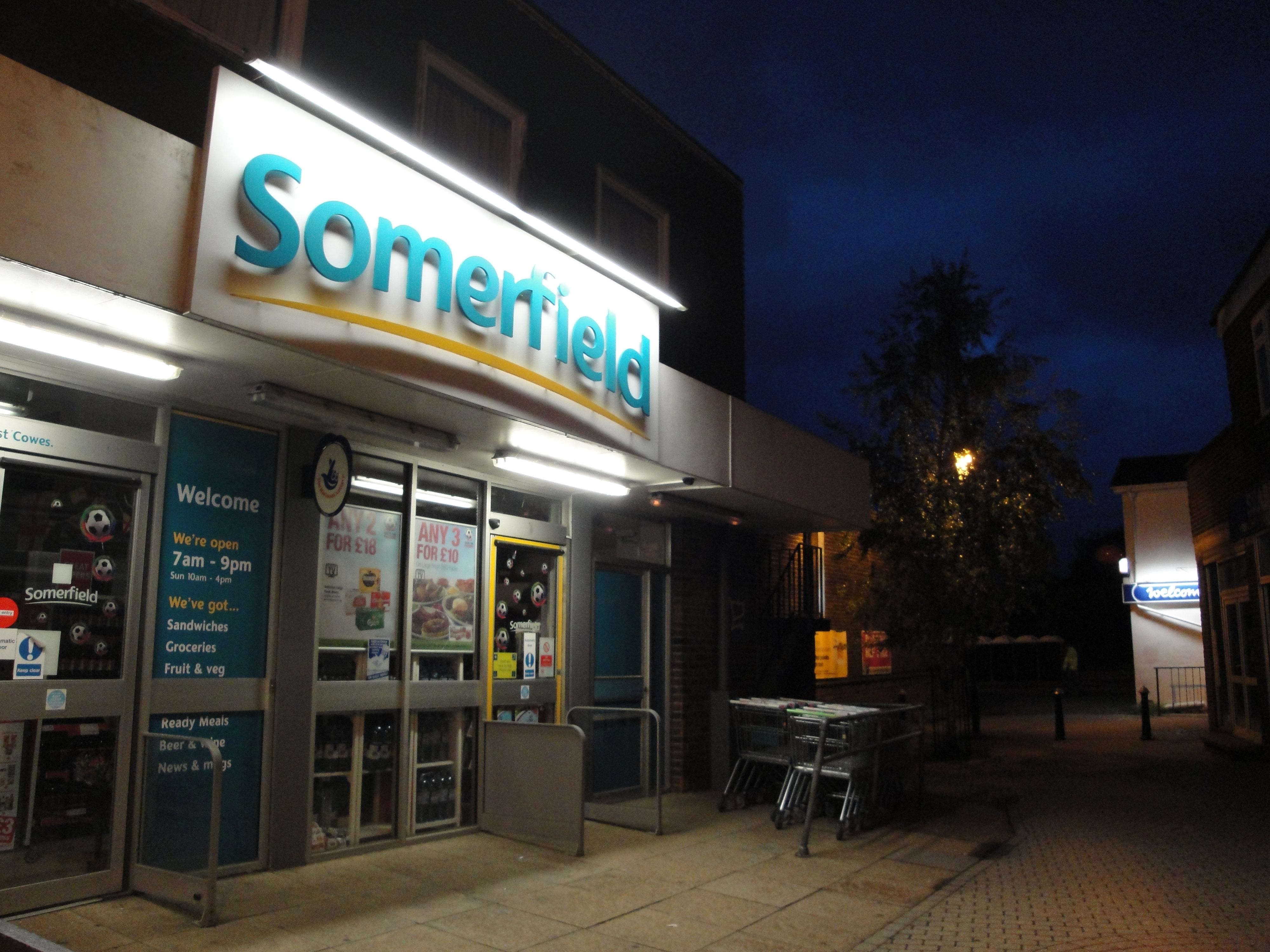 The Somerfield store off York Avenue, East Cowes, Isle of Wight. It is seen after being taken over by the Co-op, but still branded as Somerfield. However, if it was to be re-branded as a Co-op store, it would result in two Co-ops being literally next door to each other.